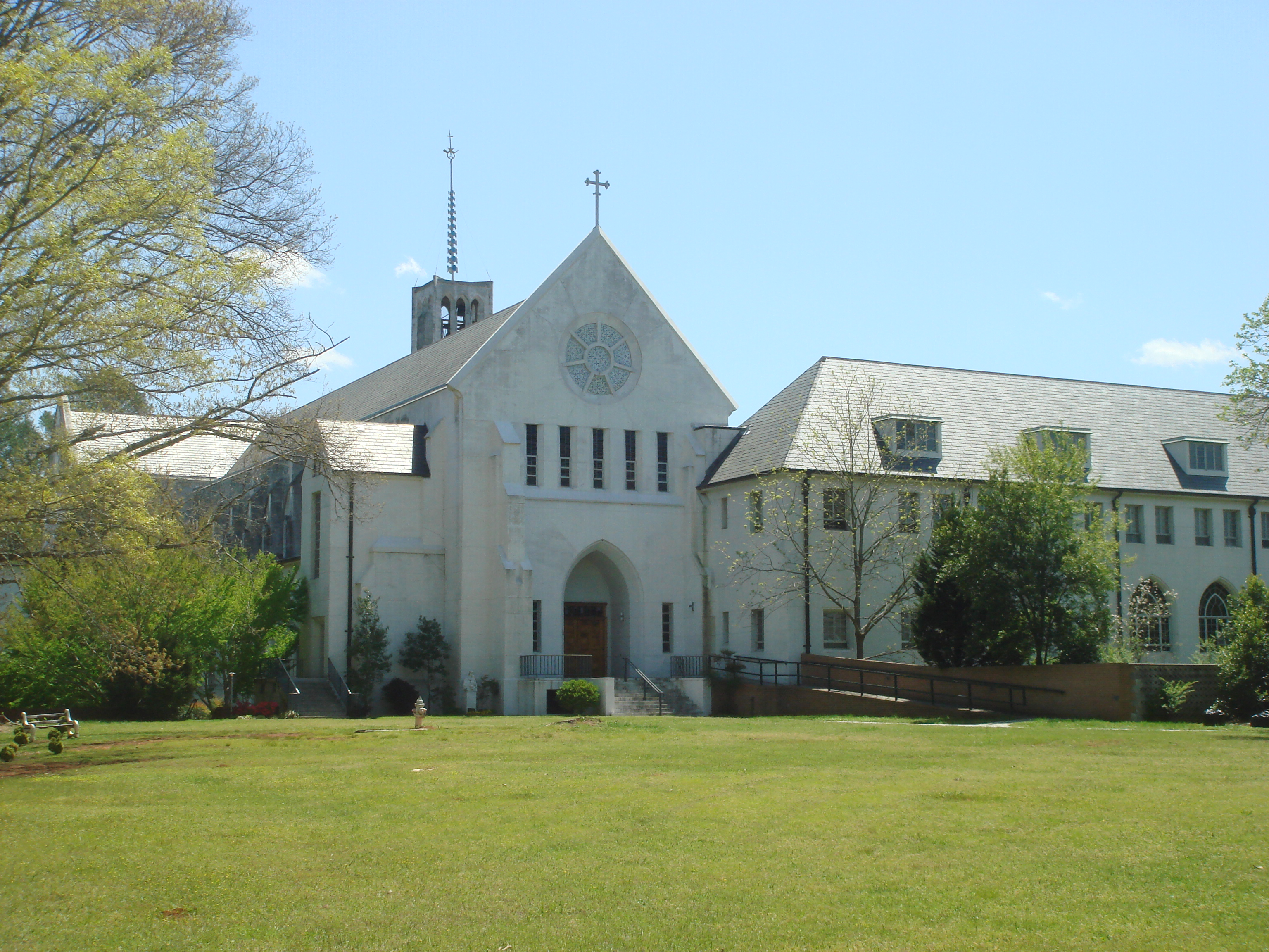 Holy Spirit Monasterty church facade